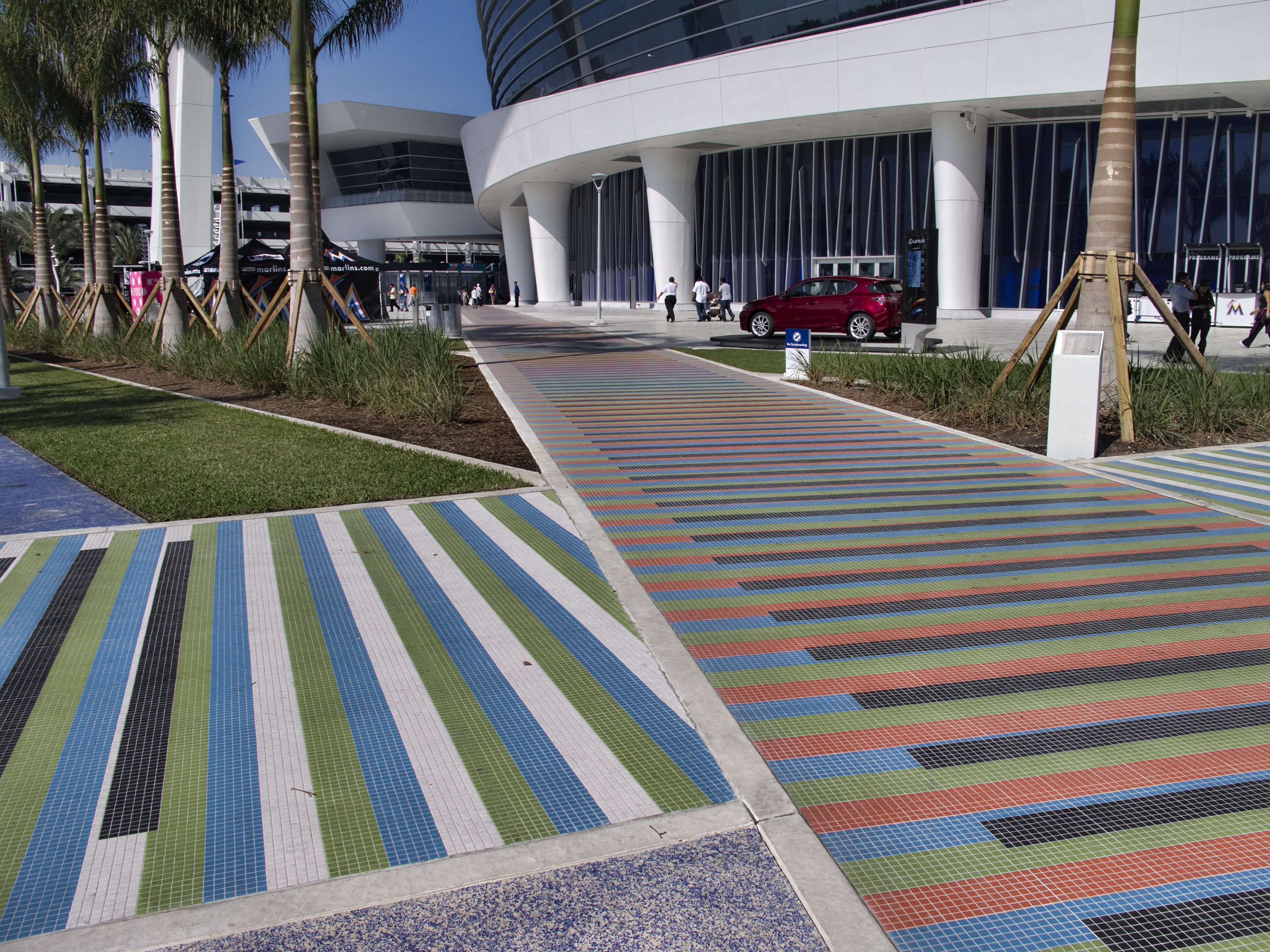 Mosaic walkways on the front (west) plaza of Marlins Park.